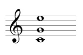 C Major Triad in open root position.